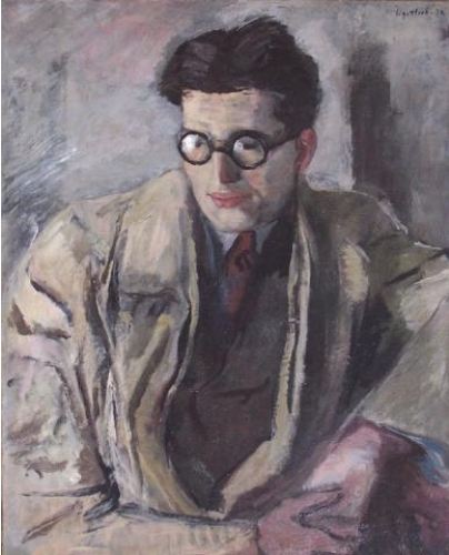 Presumed portrait of the Artist Marceli Slodki (1892-1944)